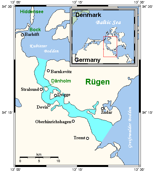 A map showing the Strelasund between the German mainland and Rügen on the Baltic coast. This map's source is here, with the uploader's modifications, and the GMT homepage says that the tools are released under the GNU General Public License.